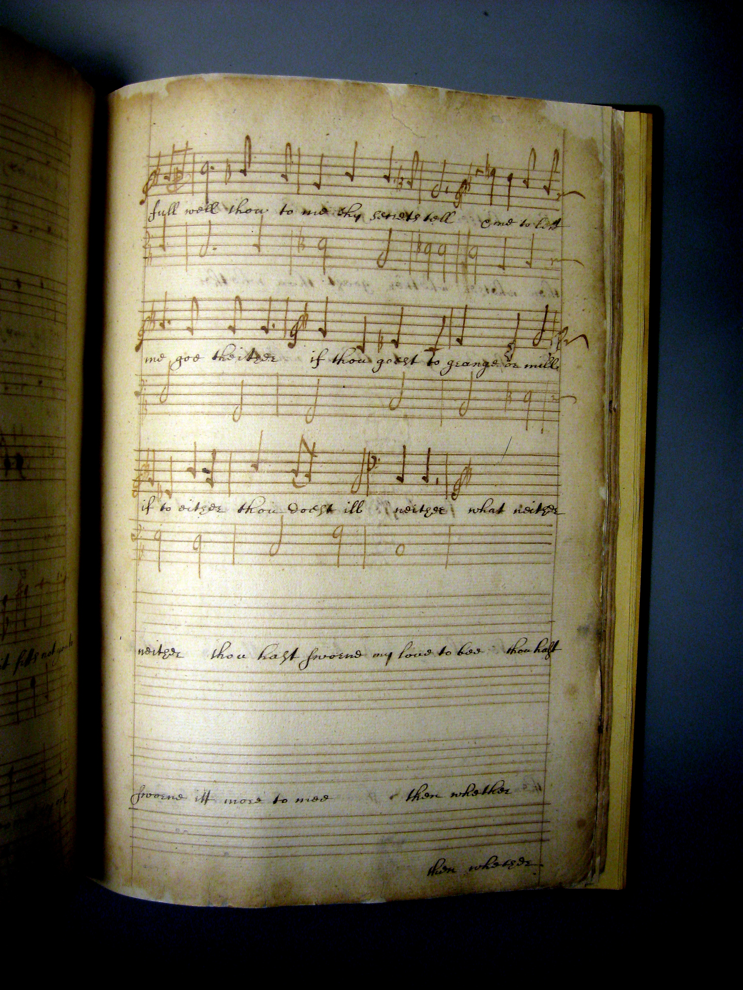 Folio 132 recto containing part of the song "Gett you hence for I must goe where it fitts not you to know" where the music is incomplete; from Drexel 4041, a music manuscript in the Music Division of the New York Public Library